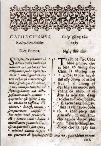 Alexandre de Rhodes Latin Vietnamese Catechism, first pageTiếng Việt: Cuốn Phép giảng tám ngày của Alexandre de Rhodes bằng song ngữ Latinh - Quốc ngữ, trang đầu tiên